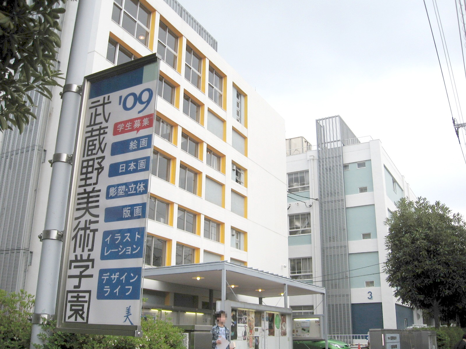 Musashino Art school from Musashino, Tokyo.